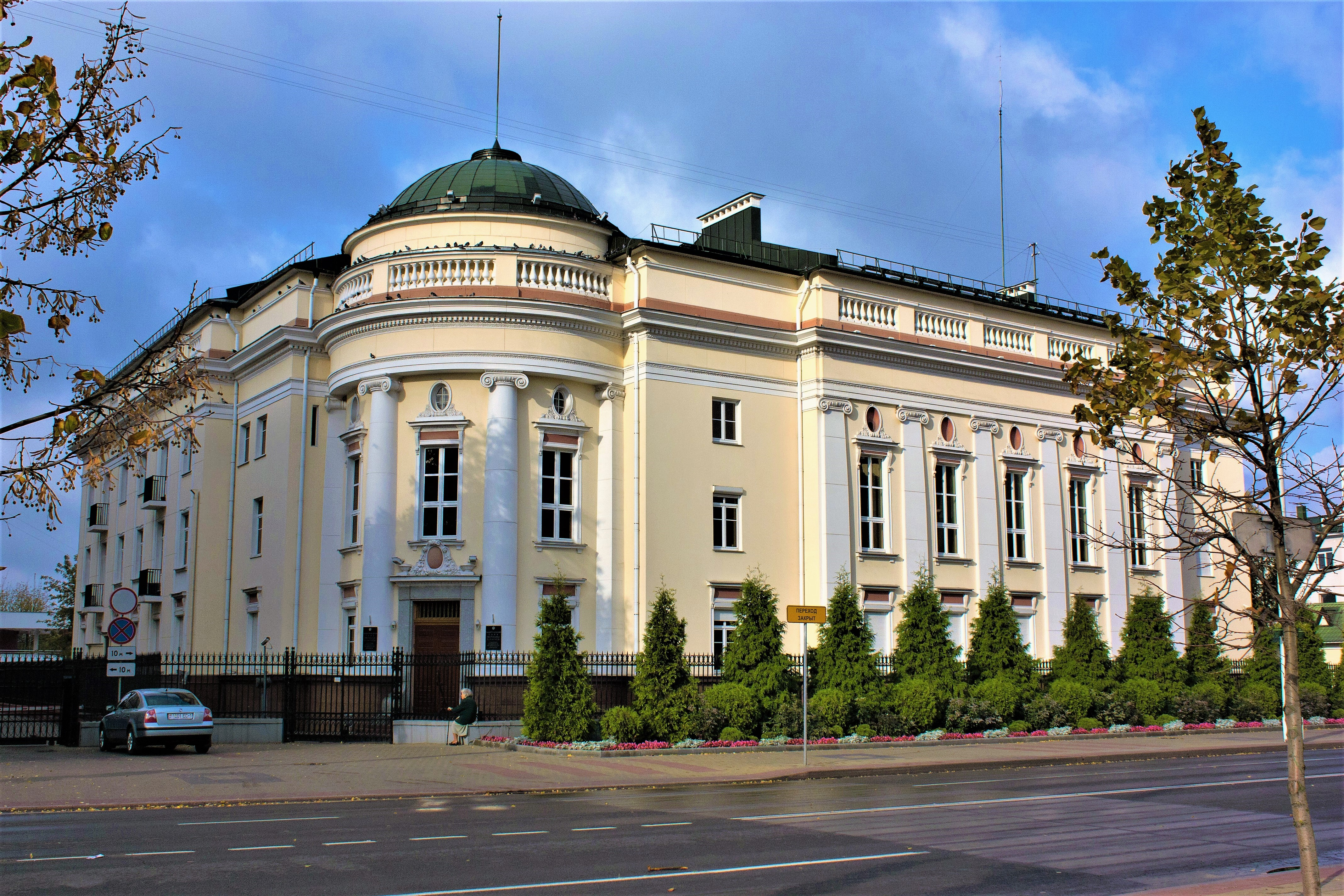 Lienina Street 9 in Brest This is a photo of Belarusian heritage monument. Reference number: 113Г000013 ( WLM)